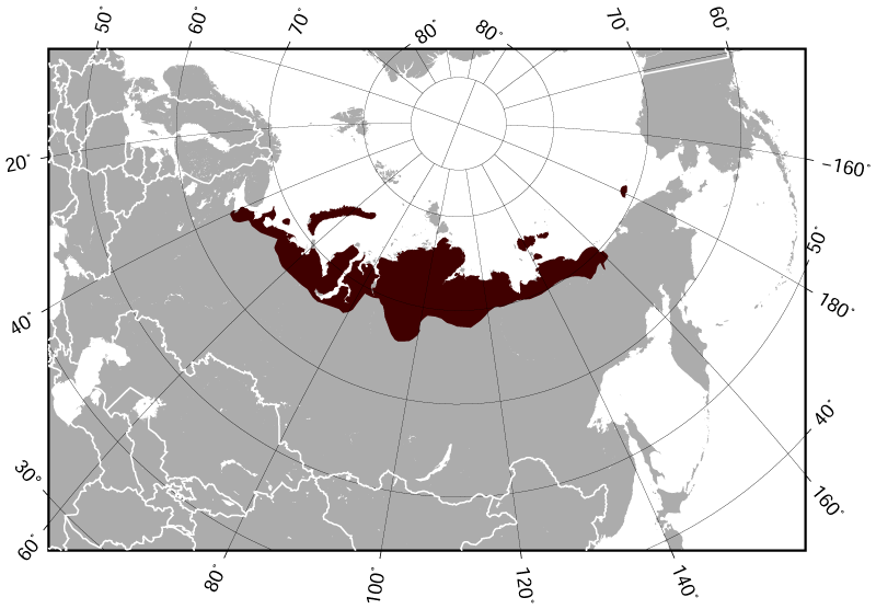 Geographical distribution of the Siberian Brown Lemming Lemmus sibiricus. The map was created using the Generic Mapping Tools, GMT, version 5.1.1.